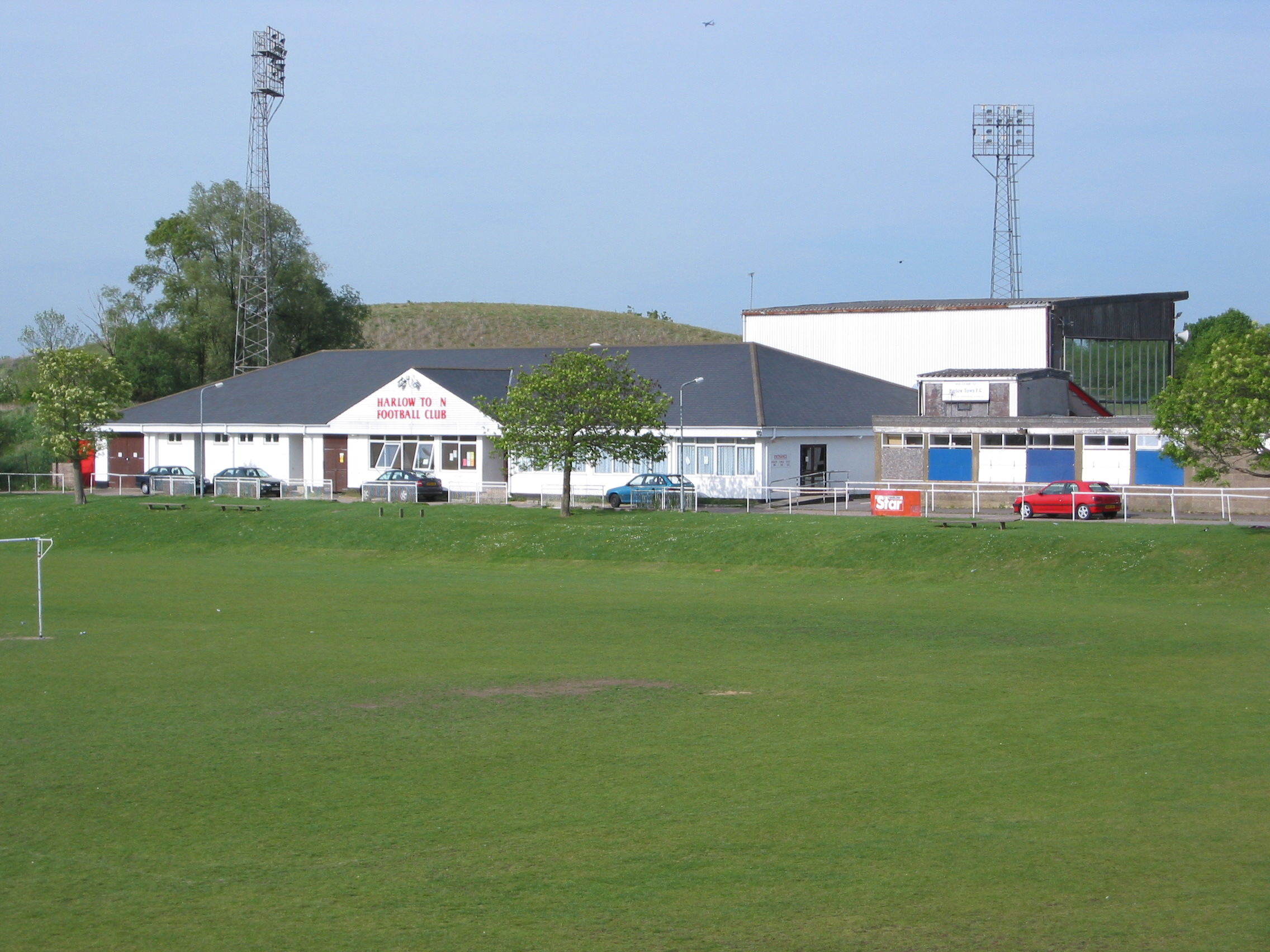 Harlow Town FC's old home, the Harlow Sportscentre. This was knocked down in 2006 and relocated to Barrow Farm in the Pinnacles. The old Sportcentre site is now a housing development with over 900 homes!